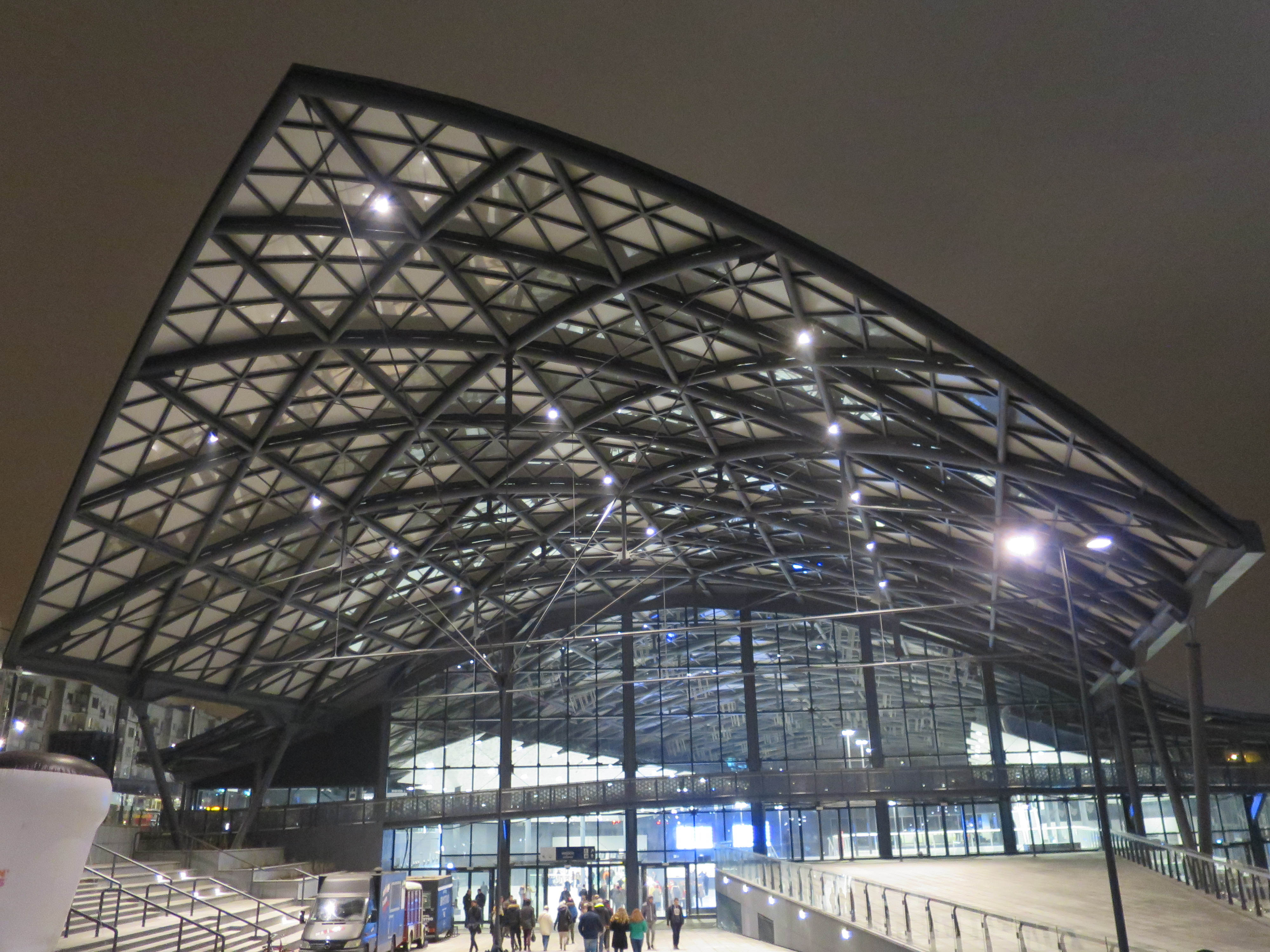 The making of this document was supported by Wikimedia Polska Association, within Wikigrant no. WG 2016-56. Łódź Fabryczna - wejście na dworzec